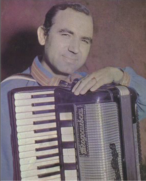 Personal photo of Stevo Teodosievski, macedonian musician and humanitarian.